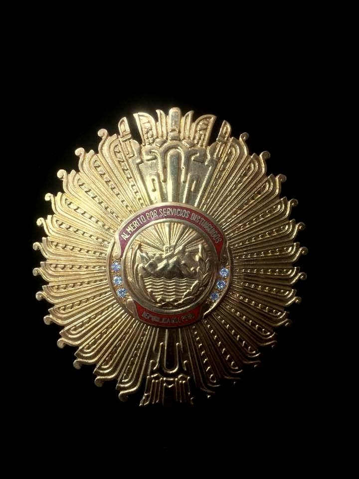 Grand Cross with Diamonds breast star of the Order of Distinguished Services, Republic of Perú